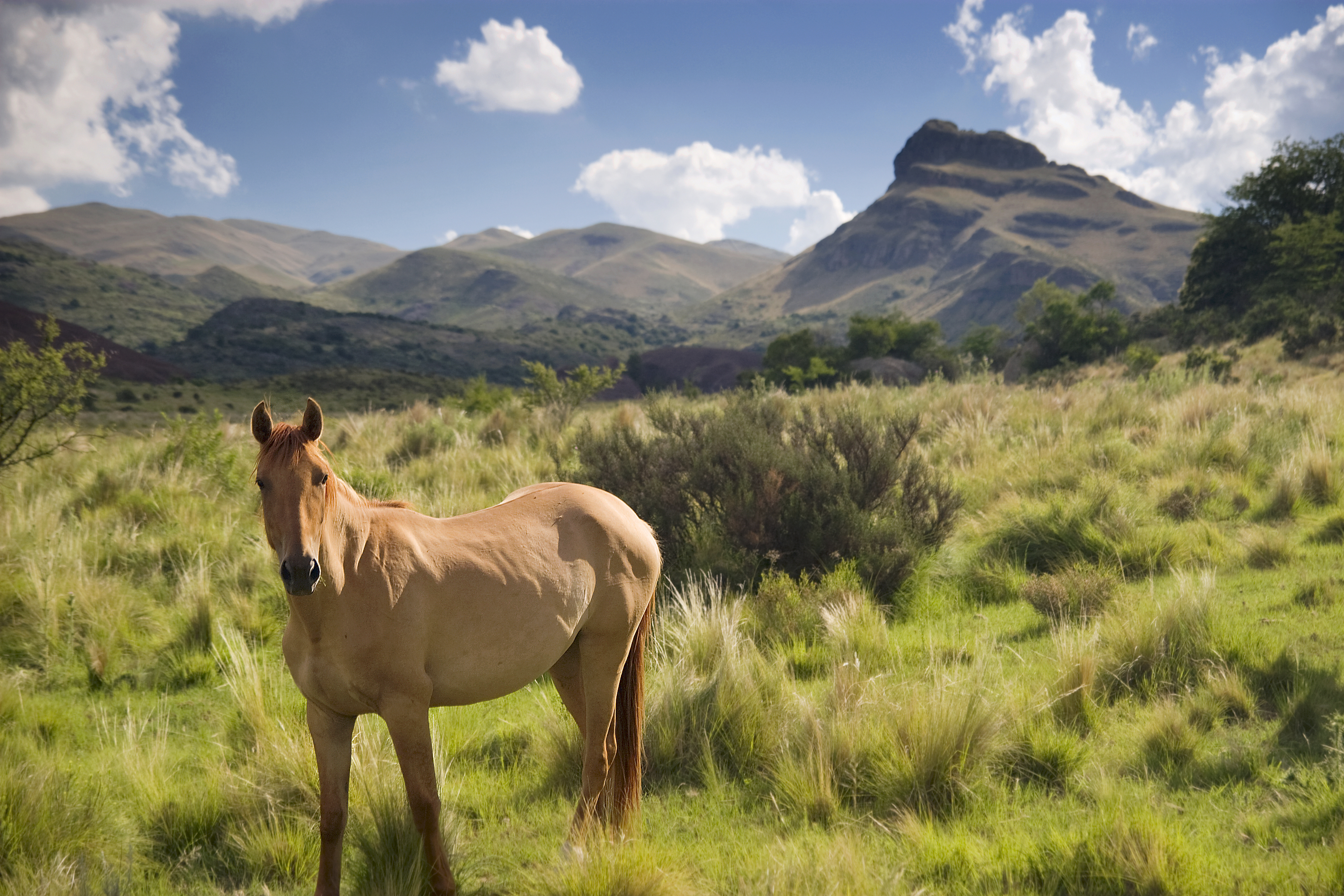 Beautiful horses could be found everywhere roaming the estancia.